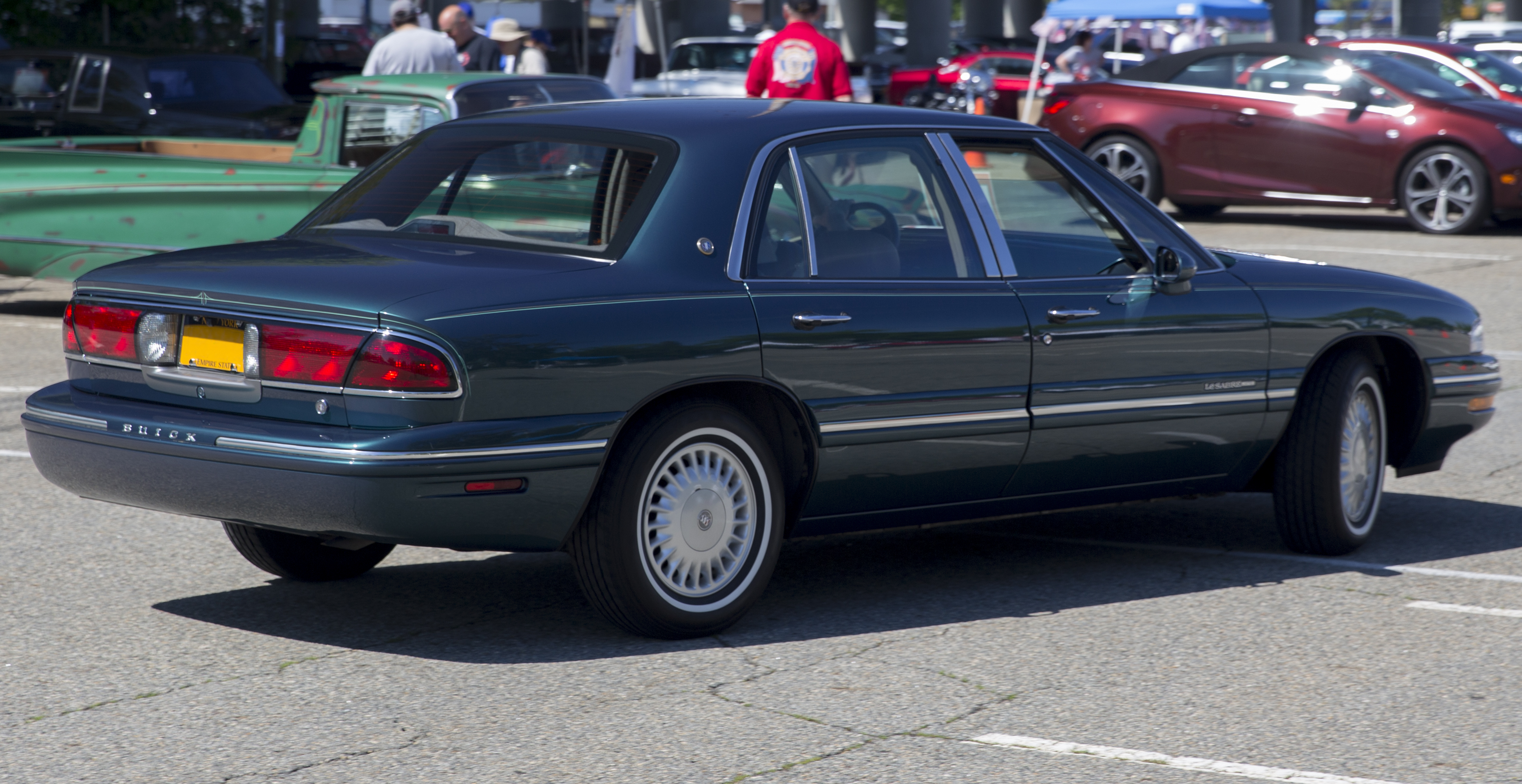 A 1998 Buick LeSabre Limited with about 12,000 miles on the odometer. Optional cassette player and leather seats. Emerald Green Pearl Metallic with Beige leather. 3800 Series II V6 engine, original tires!!!